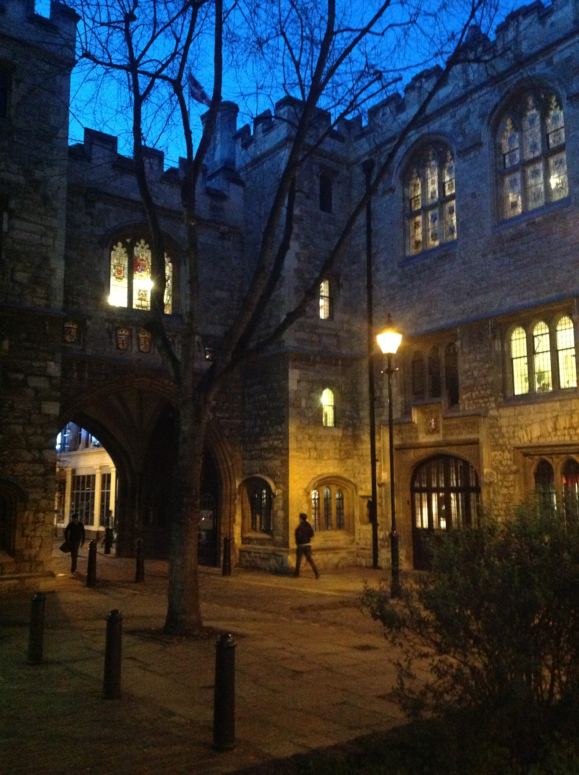 St John's Gate